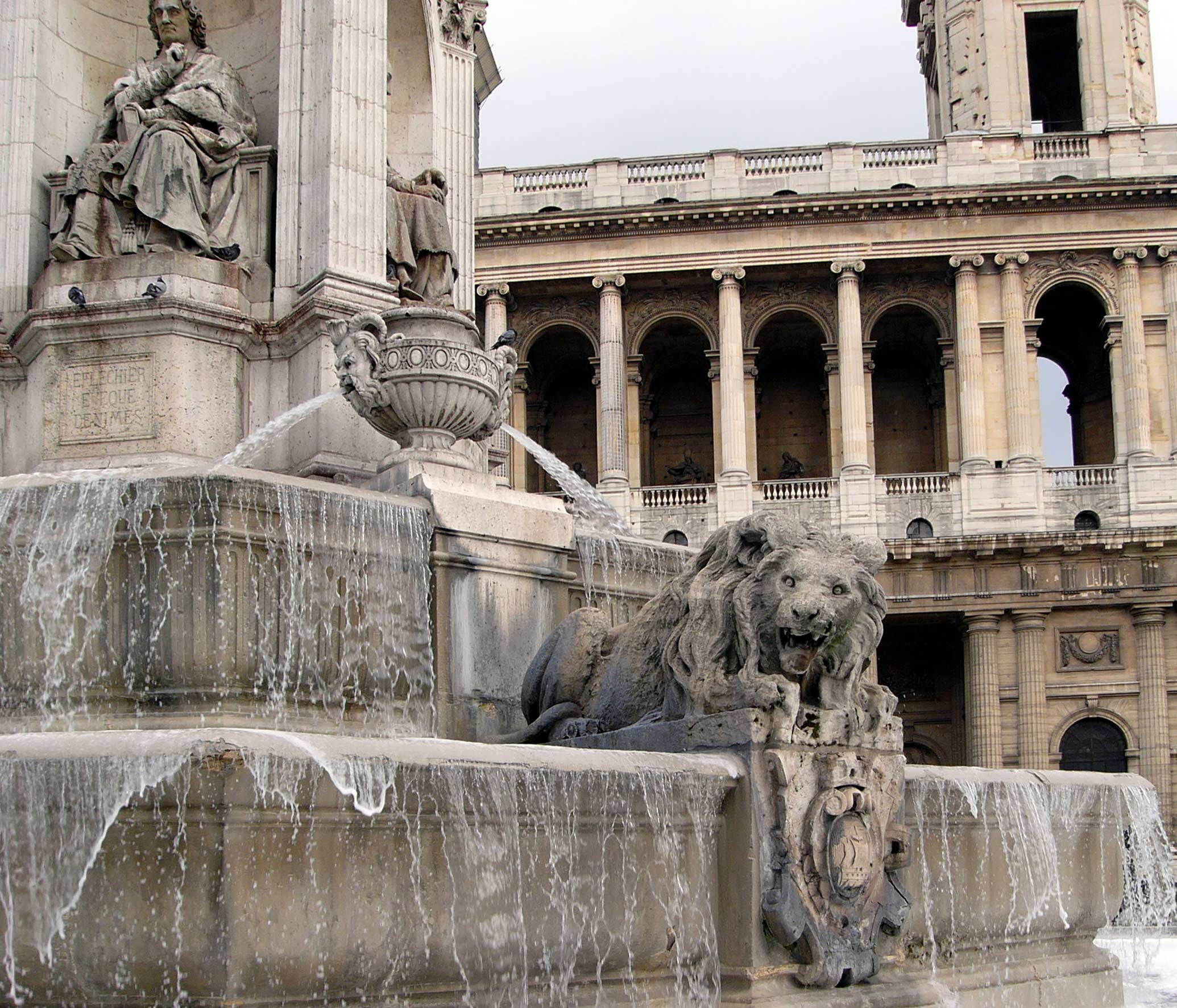 The Fountain of the Four Bishops with church in the background, Place Saint-Sulpice